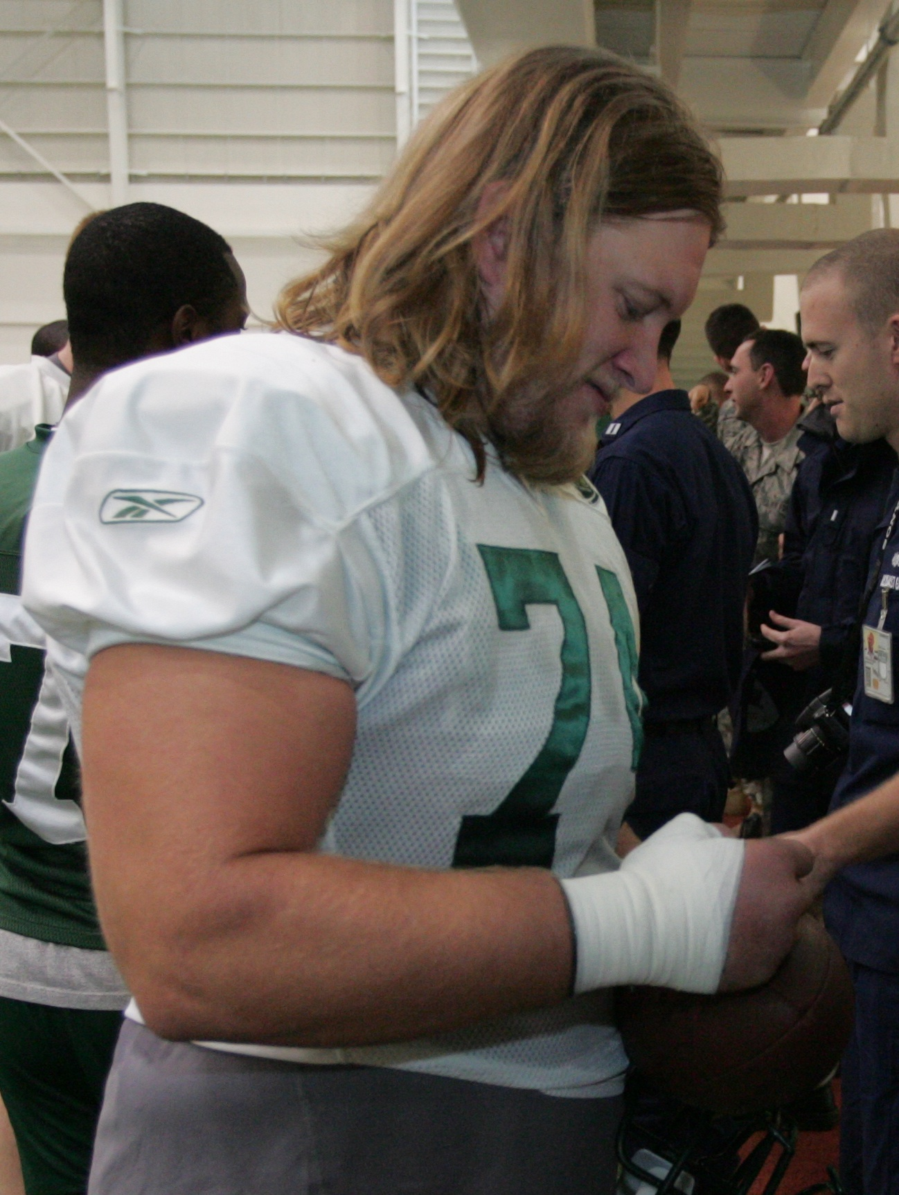 FLORHAM PARK, N.J. -- Marines from Recruiting Station New Jersey meet with Nick Mangold, center, New York Jets, during a tour of the team's practice facility Nov. 13. The team invited service members to their practice and Sunday the Jets will honor military veterans during their military appreciation day. (Official Marine Corps photo by Sgt. Randall A. Clinton)